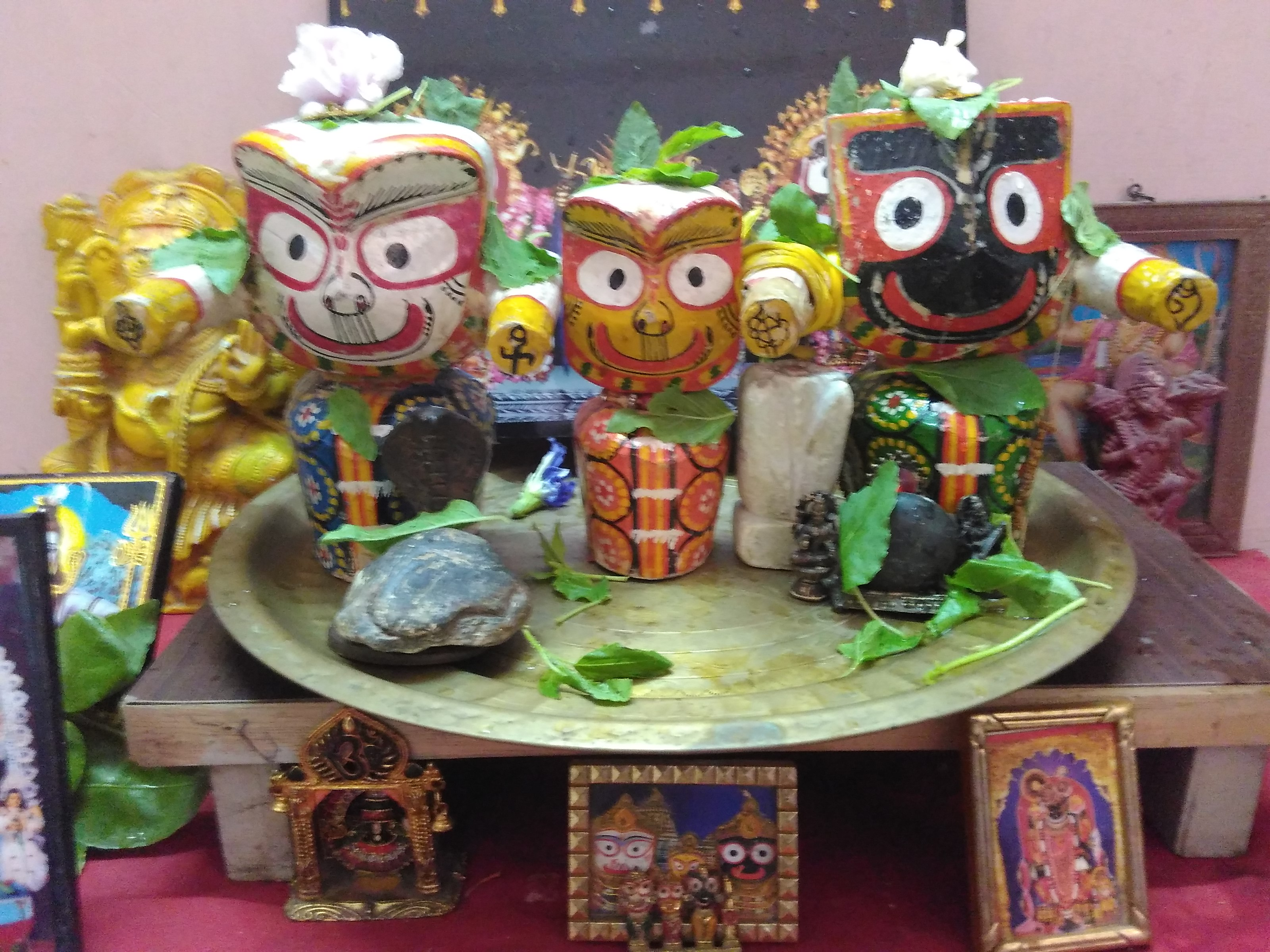 lord jagannath is bathed with 108 buckets of cold water